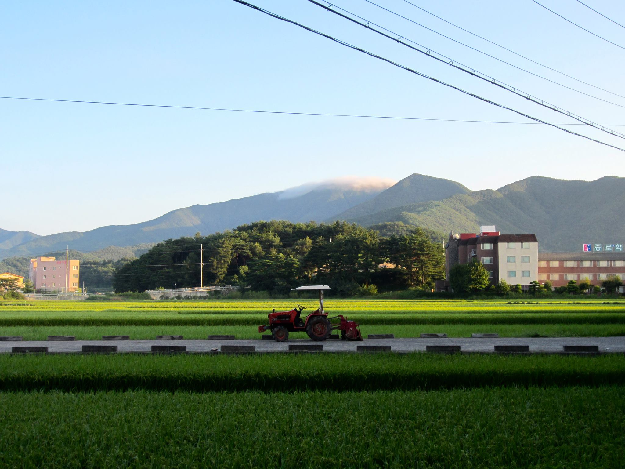 photo of mountain view in Eonyang-eup, South Korea